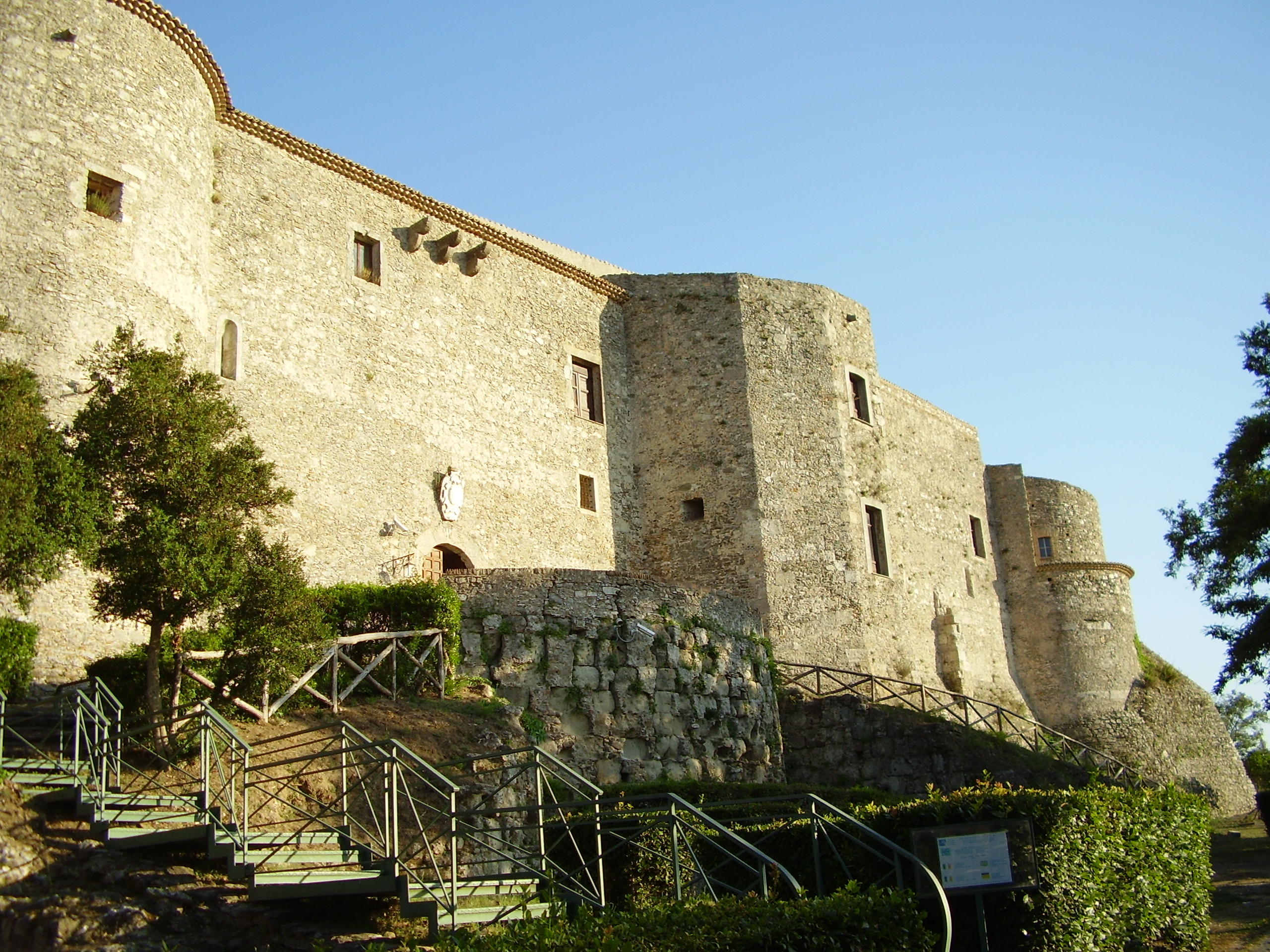 Castle of Vibo Valentia